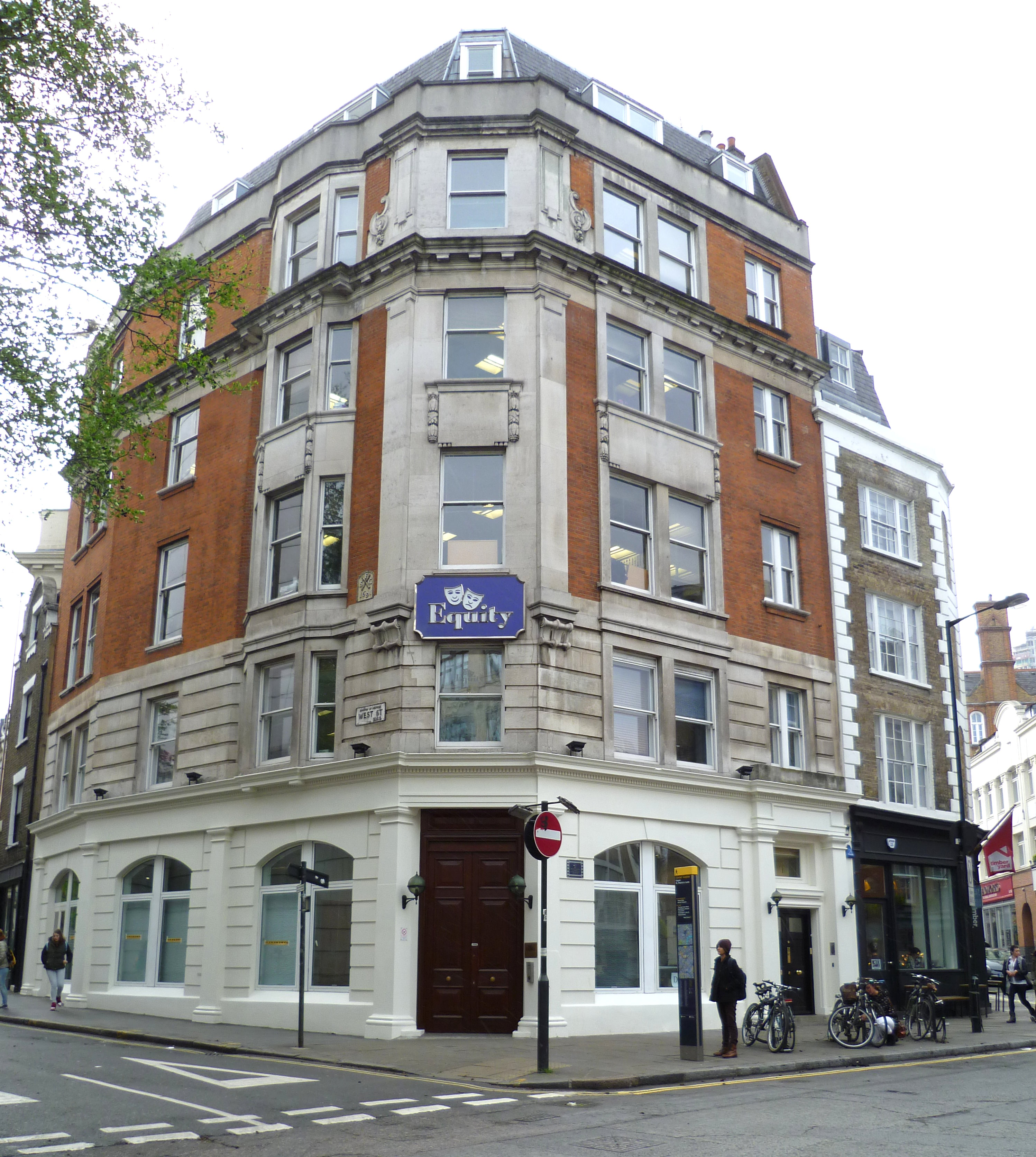 Equity building London.